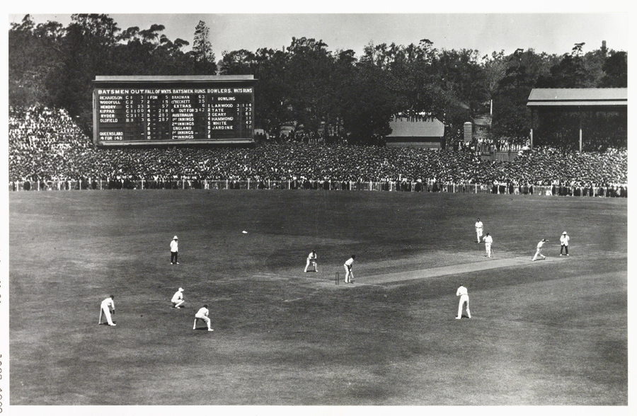 Creator: Herbert Fishwick (?) Date: 1928 Format: Photograph Collection: Kodak Collection at the National Media Museum Inventory no: 1990-5036/6012/0017 Blog: Happy Australia Day A snapshot photograph of the Third Test between England and Australia in Melbourne, Australia. Larwood of England is just bowling to Beckett during Australia's first innings. Originally a shooting term, the word 'snapshot' was first linked with photography in the late 1850s, when it was used to describe a photograph taken with a brief exposure. Over time, snapshot came to mean any amateur photograph taken with a simple camera. Snapshots are informal, personal records of everyday life and experiences.